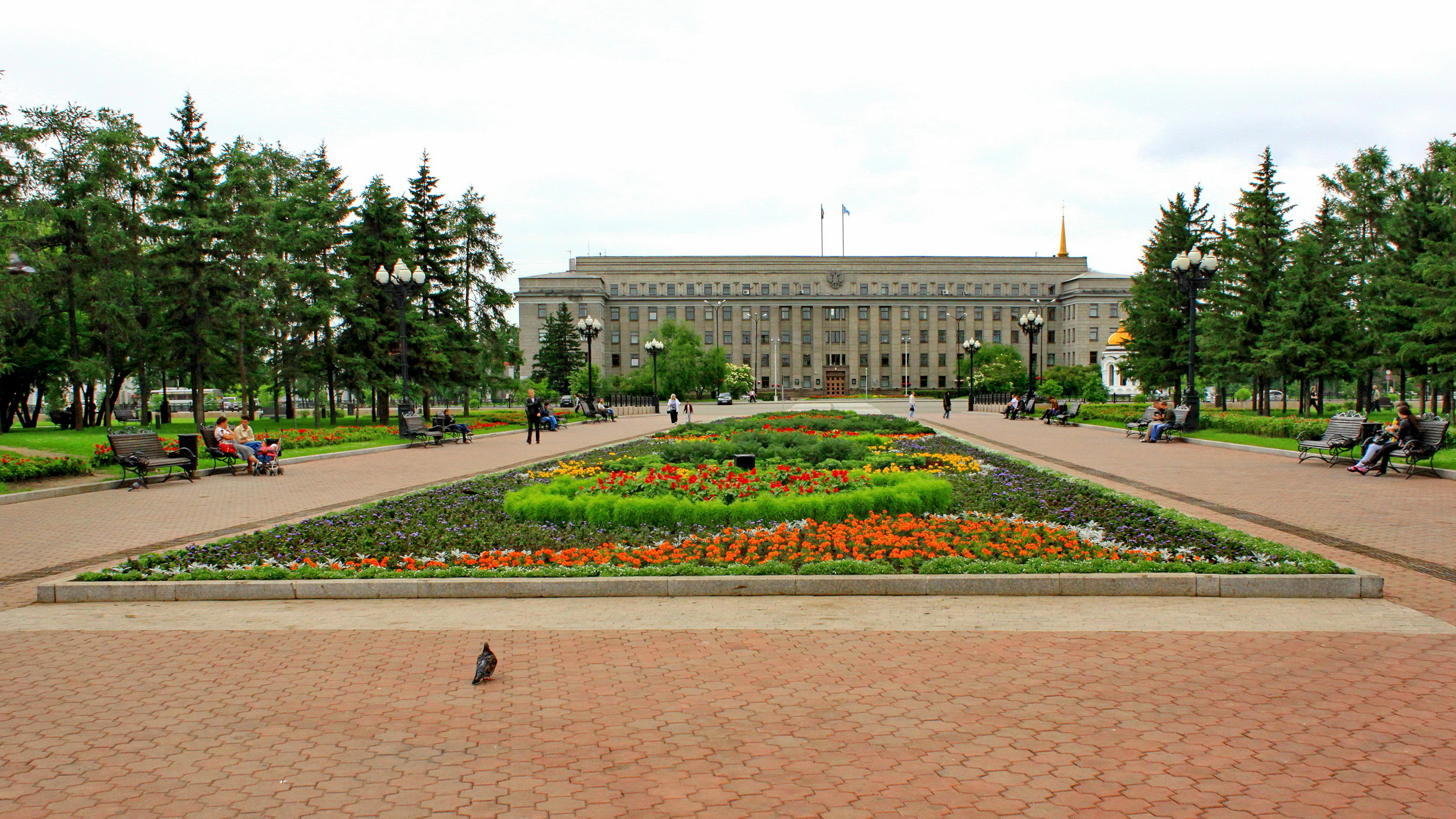 Graf Speransky Square (previously Kirov Square). Irkutsk, Russia.